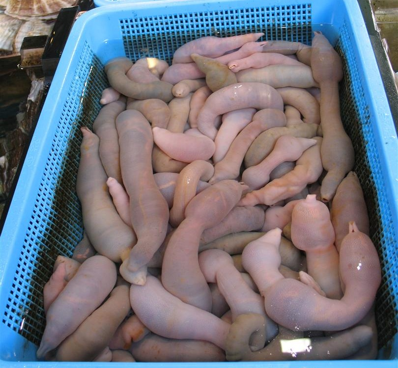 Live gaebul (aka penis fish) sold at a fish market at Busan, South Korea